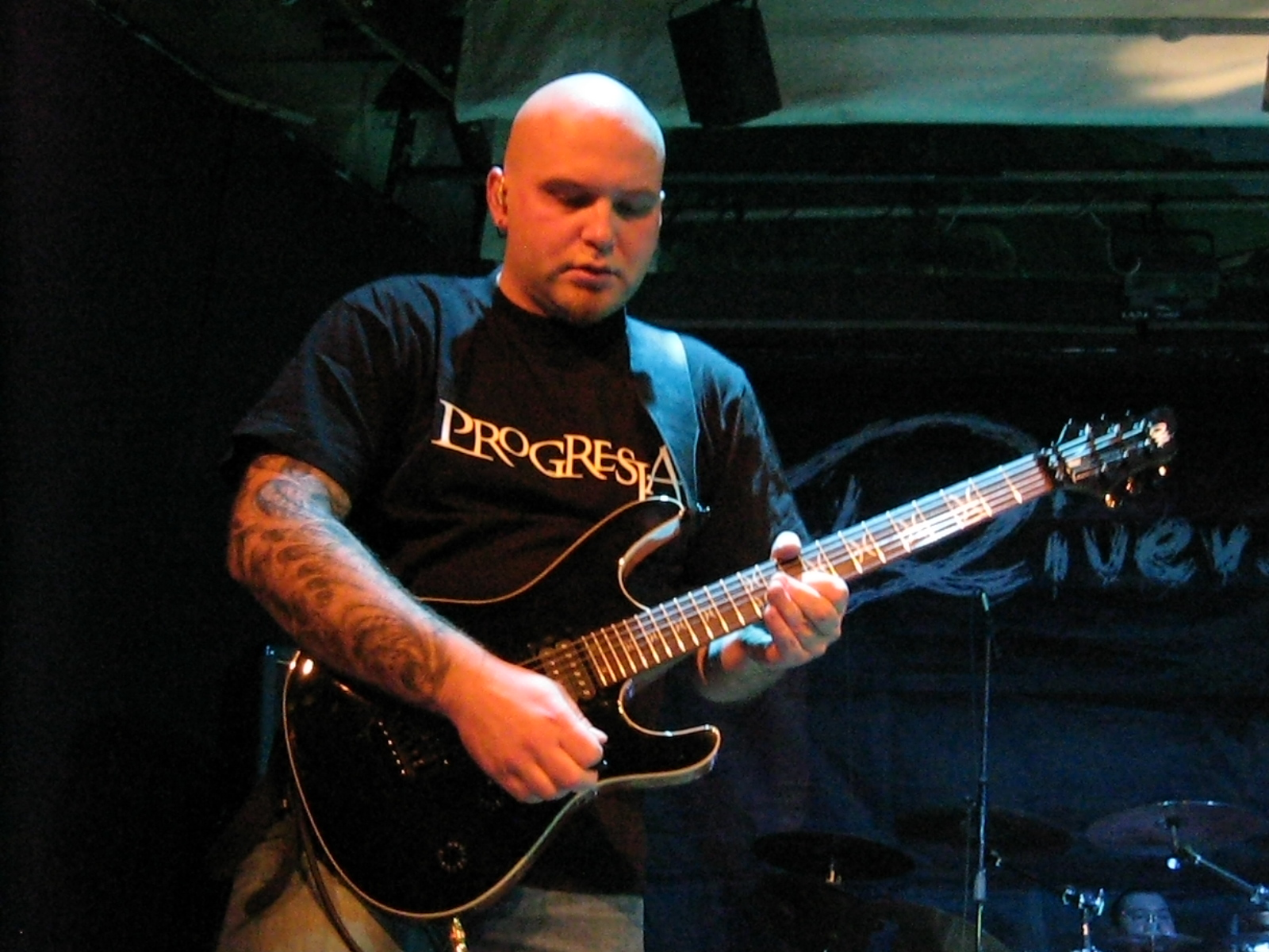 Piotr Grudziñski from Riverside at Lydney Town Hall. 2007-11-29.